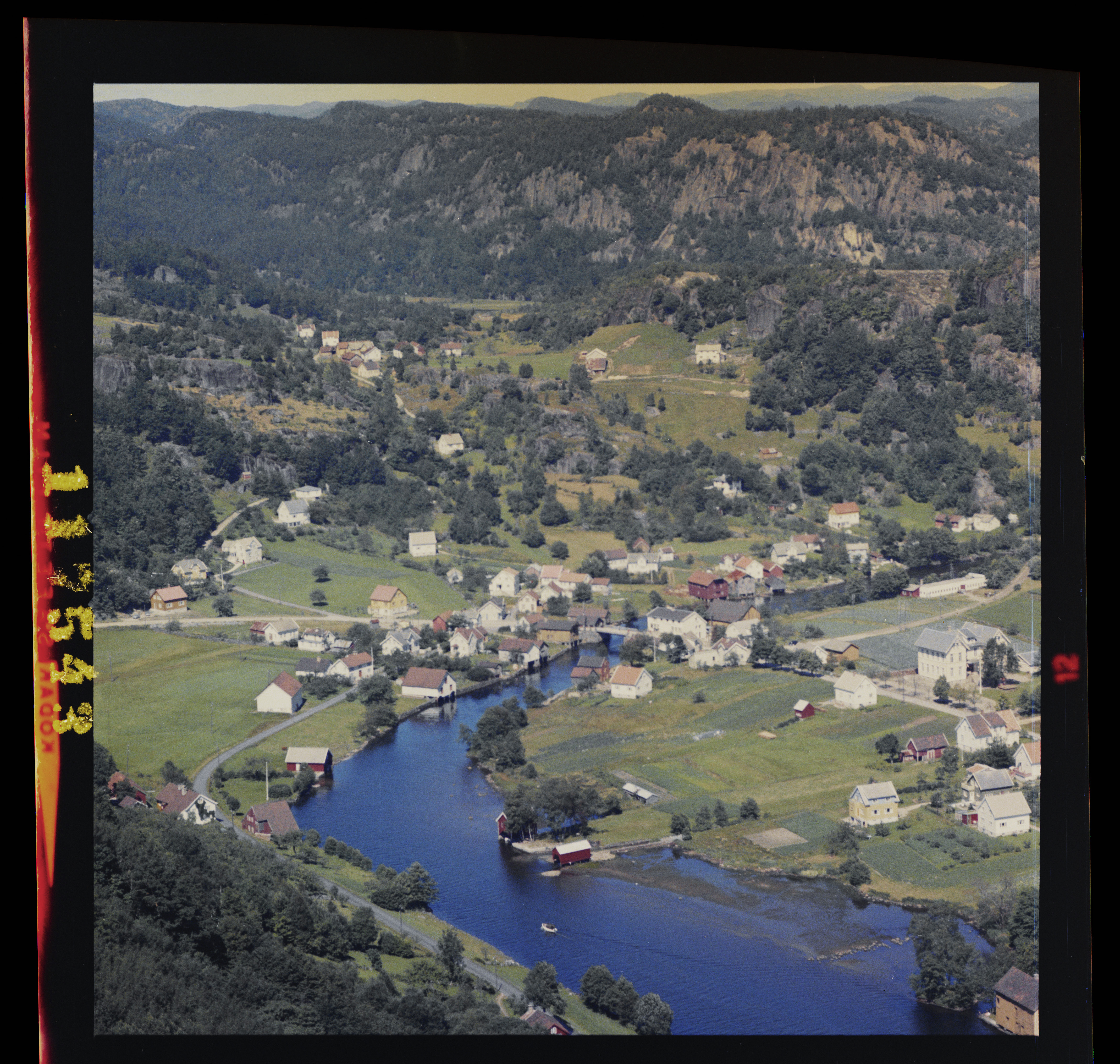 Tittel / Title: Kvinesdal kommune Beskrivelse / Description: Dato / Date: 1963 Sted / Place: Kvinesdal kommune i Vest-Agder Fotograf / Photographer: Fotograf ukjent Bildesignatur / Image Number: NB_KK_WF_117543 Digital kopi av original / Digital copy of original: Fargenegativ, acetat-base, 5,5 x 5,5 cm. Eier / Owner Institution: Nasjonalbiblioteket / National Library of Norway Lenke / Link